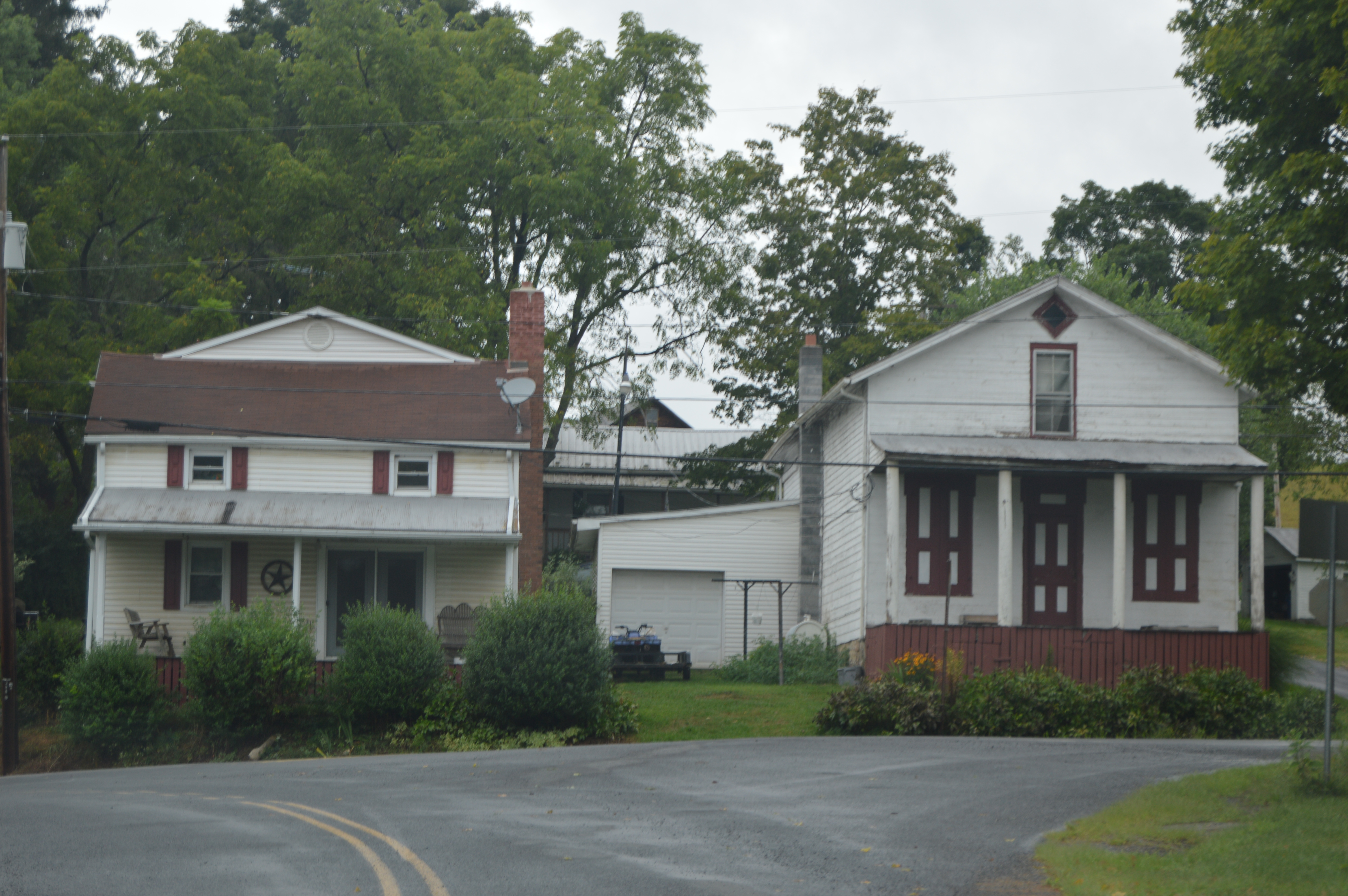 Buildings at the intersection of Chaneysville and Ragged Mountain Roads at Chaneysville in Southampton Township, Bedford County, Pennsylvania, United States.